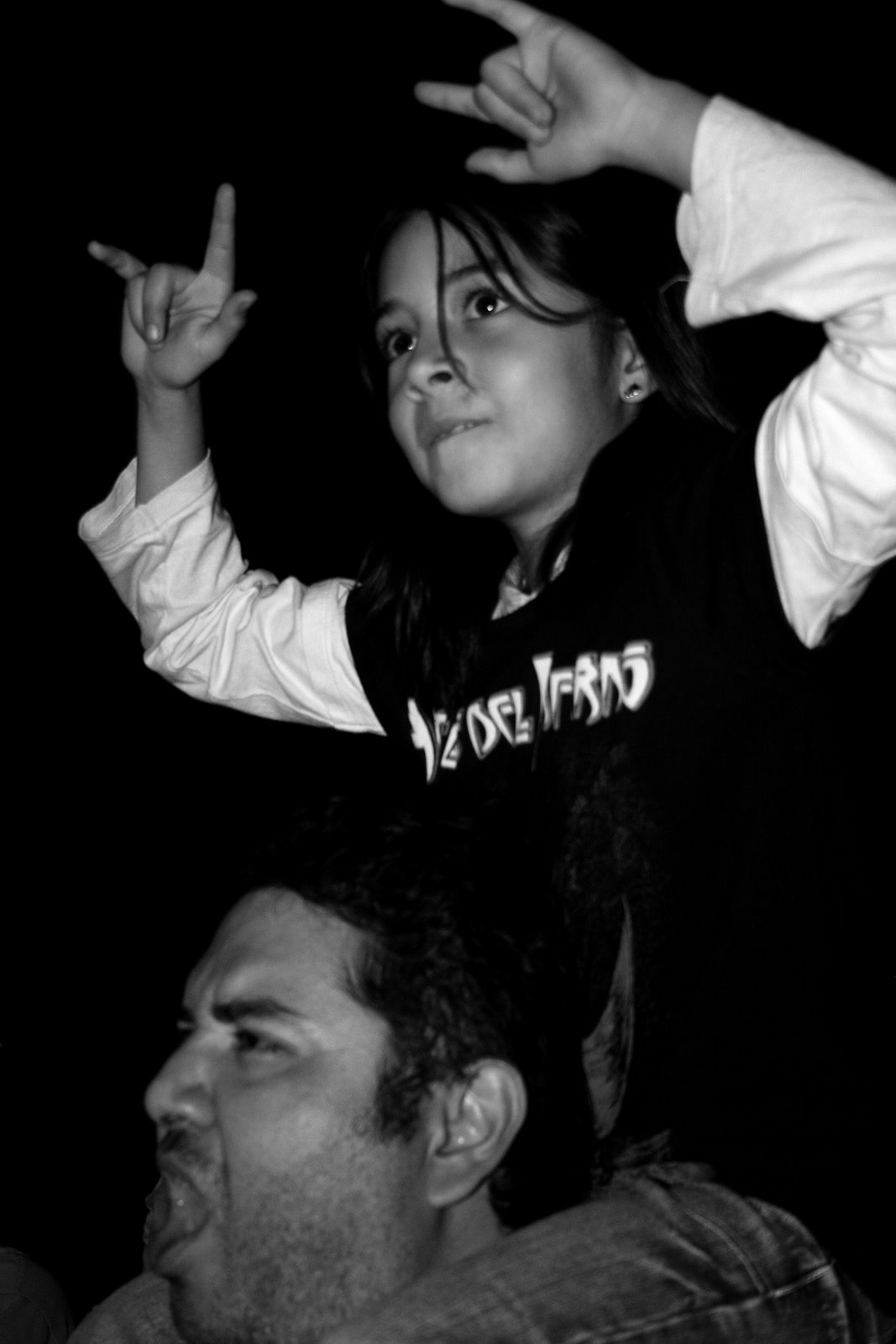 A little girl and her father at Angeles Del Infierno's concert!